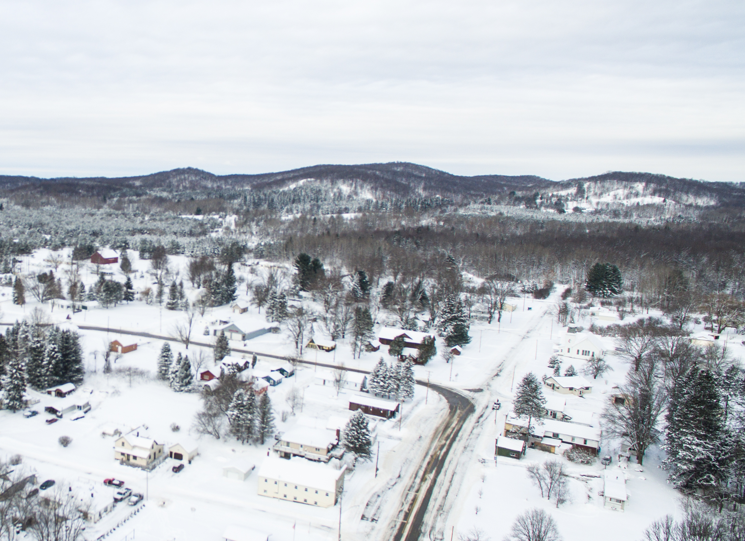 Harrietta, Michigan in the winter facing north.